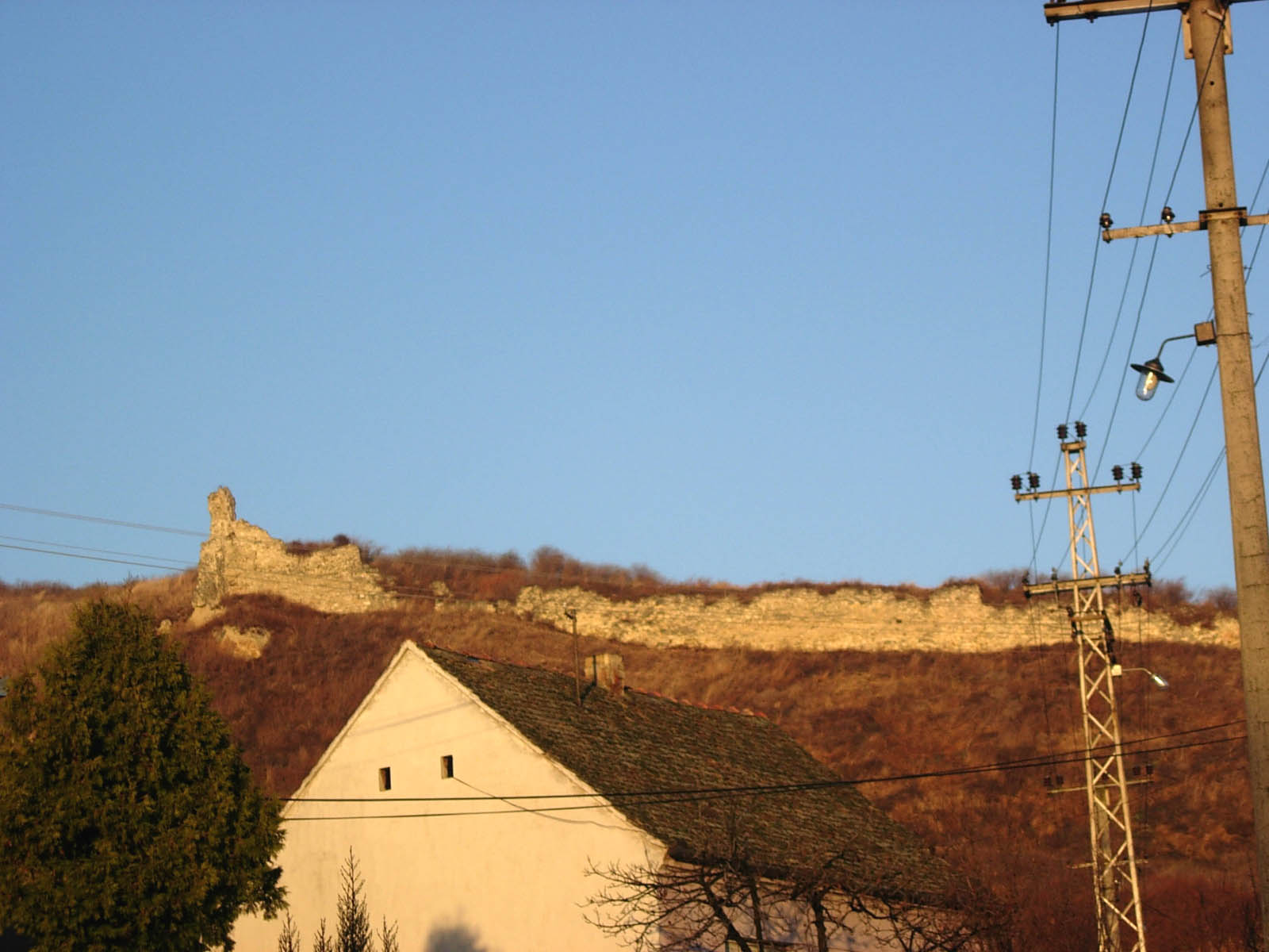 Remains of the medieval fortress of Slankamen in Stari Slankamen.